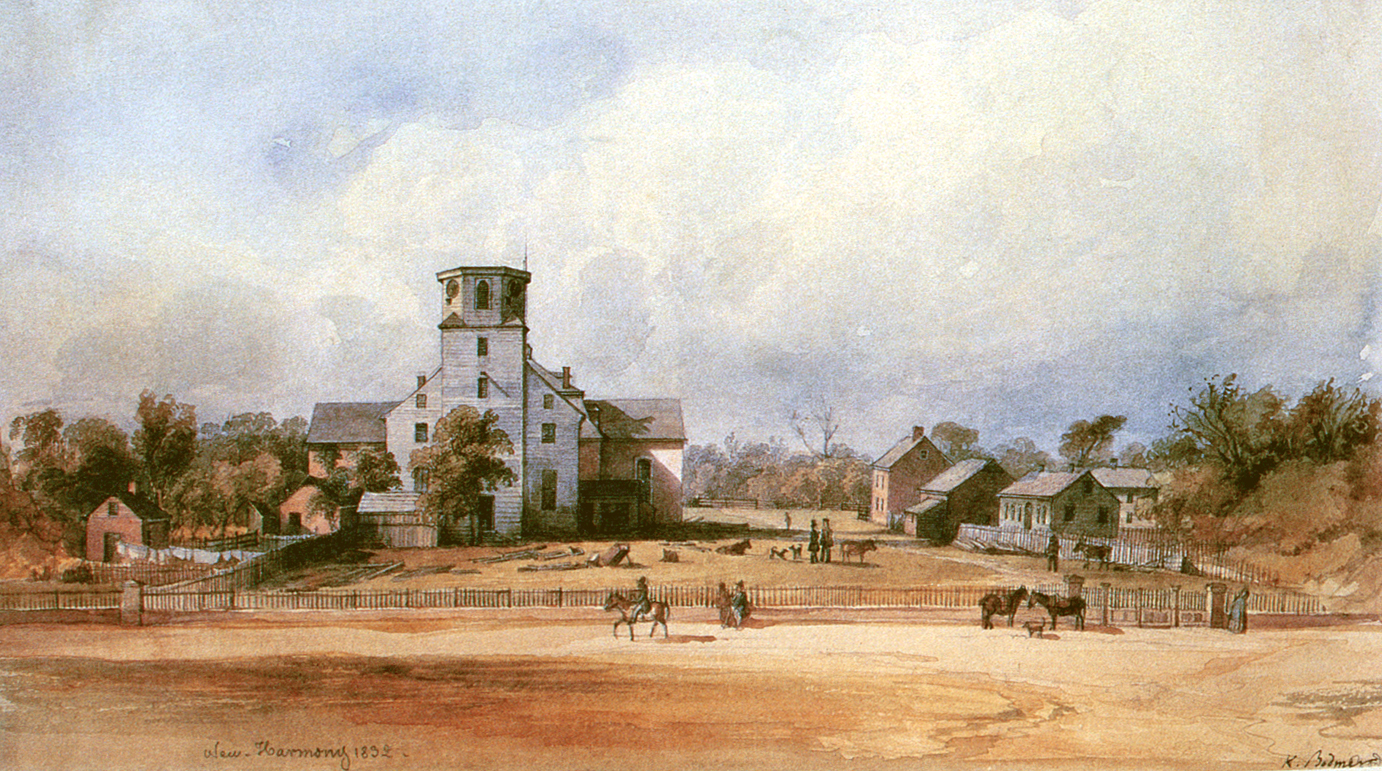 The church of New Harmony 1832. Watercolor by Karl Bodmer.